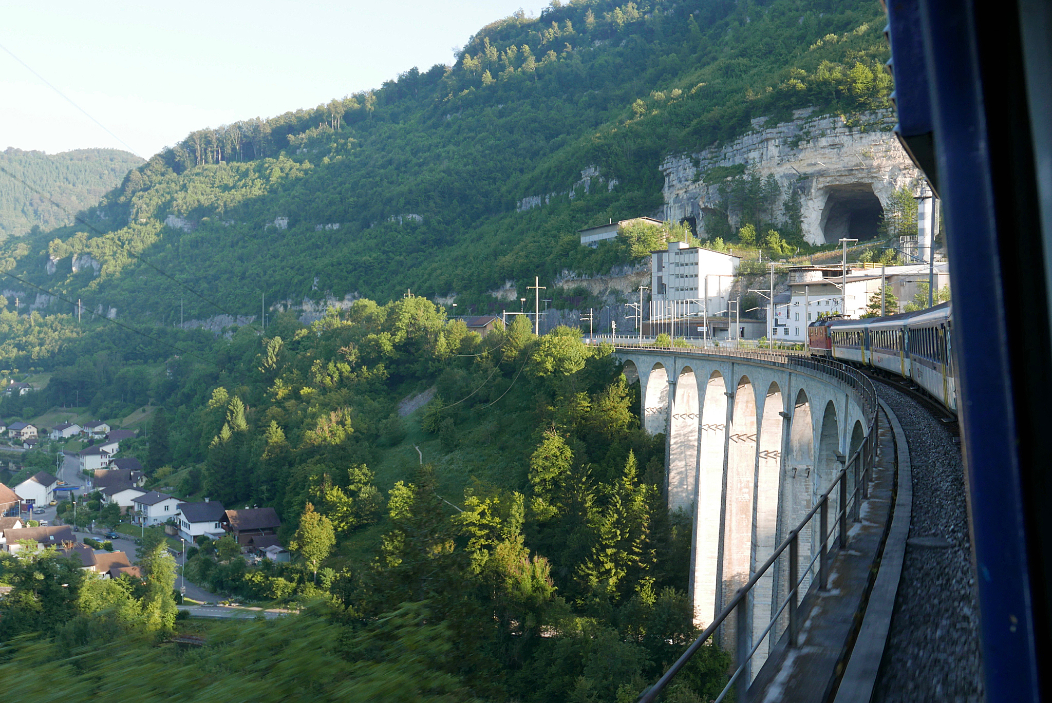 Saint-Ursanne viaduct.